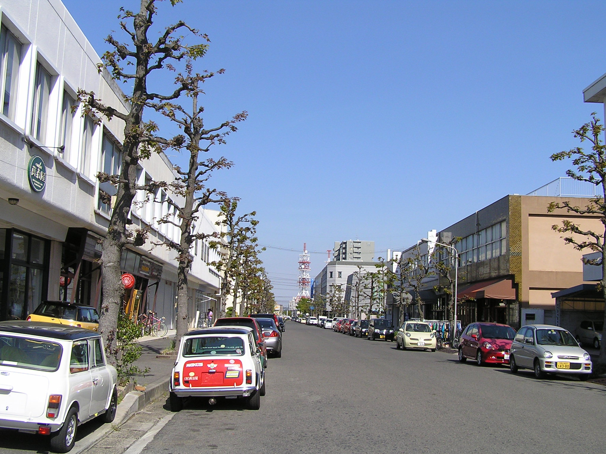 Town in Toiya-mati